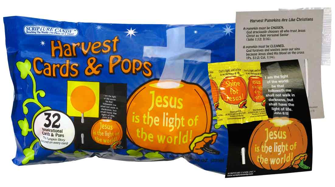 Halloween Scipture Candy, which is often passed out by Christians on All Hallows' Eve. The candy is accompanied by a gospel tract, which contains information on the history of the holiday, as well as the Good News, a central theme in Christianity.